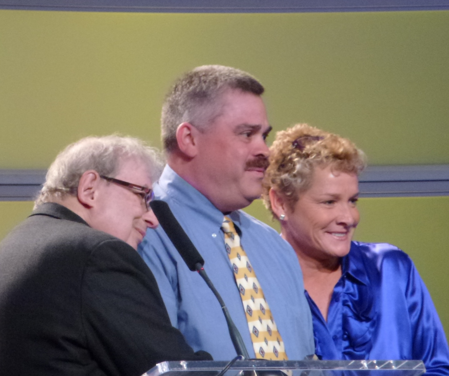 Mike Carmin, of the Lafayette Journal & Courier, winner of the 2012 Mel Greenberg Award. The award was presented by Mel Greenberg (on his right) and Beth Bass, CEO of the WBCA, at the WBCA Awards ceremony in Denver Colorado.